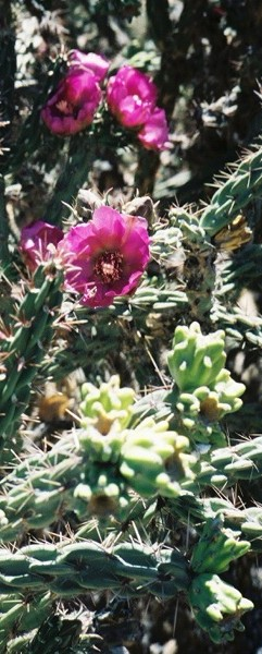 Tree cholla or cane cholla (Opuntia imbricata or Cylindropuntia imbricata) flowers with previous year's fruits (yellow). Taken in Española, New Mexico, June, 2005, by Jerry Friedman.